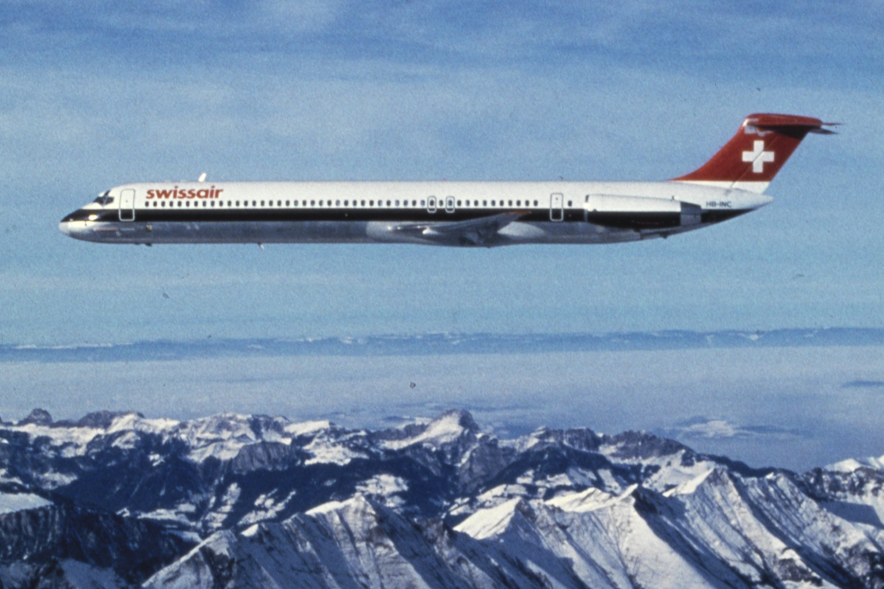 Swissair, McDonnell Douglas DC-9-81, HB-INC "Thurgau" over Switzerland